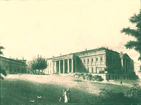 A contemporary etching by Eduard Gurk of the Palais Rasumofsky in Vienna's third district, Landstraße.